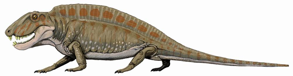 Restoration of Sphenacodon.